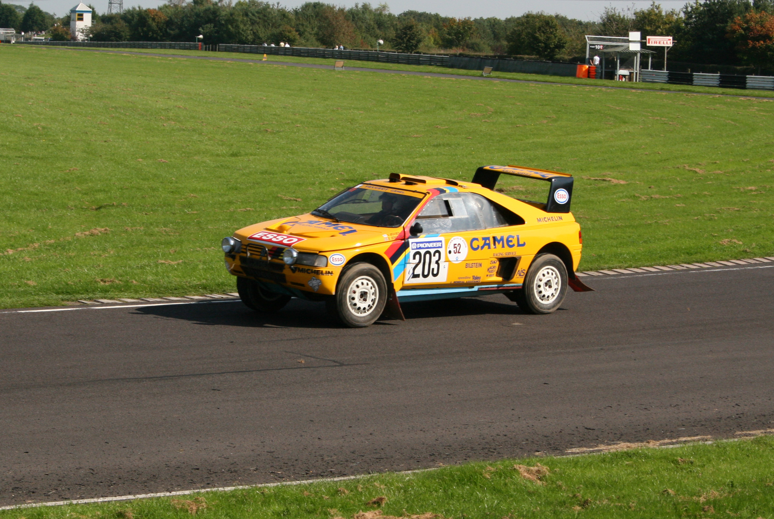 The 1990 Peugeot 405 T16 Dakar Rally version at Castle Combe Circuit.